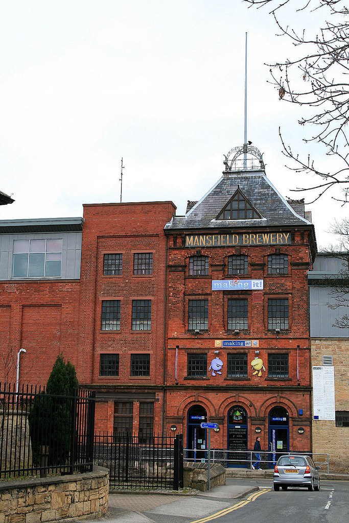 The Mansfield Brewery entrance building. Not much changes in the last six years 1163630. While around it the works buildings have gone.